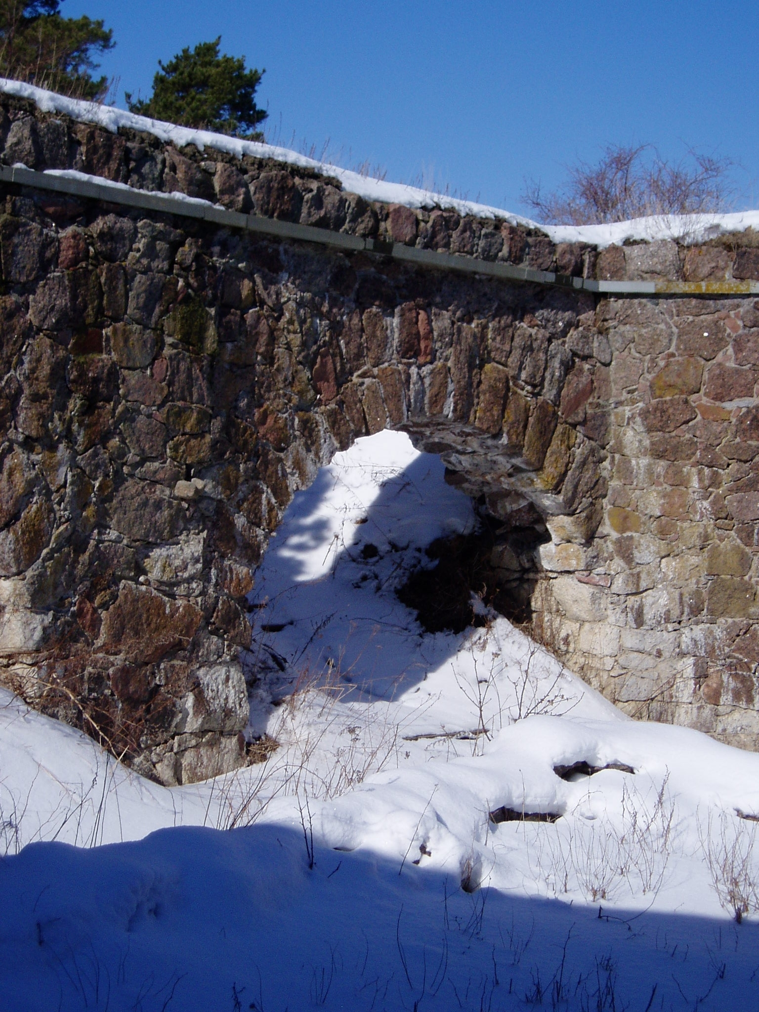 Fortress of Svartholm. Photo by Ohto Kokko.